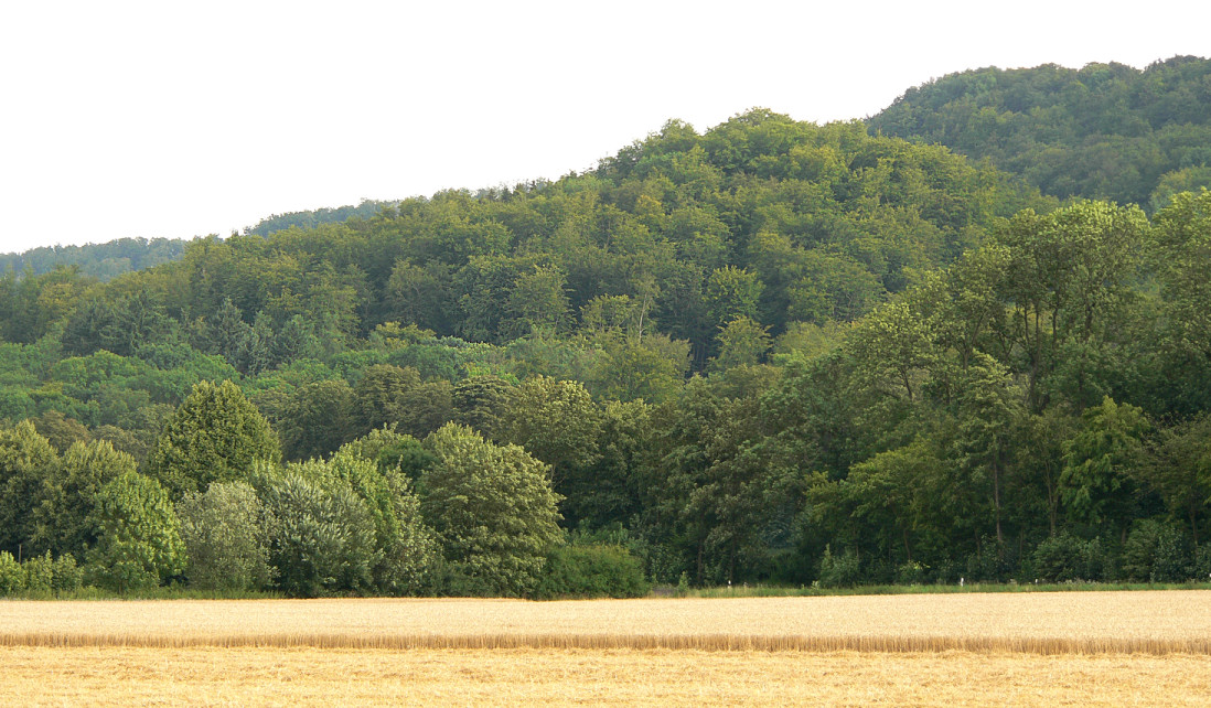 The cone-shape hill of the Hallermundskopf, part of the Kleine Deister, Lower Saxony, Germany